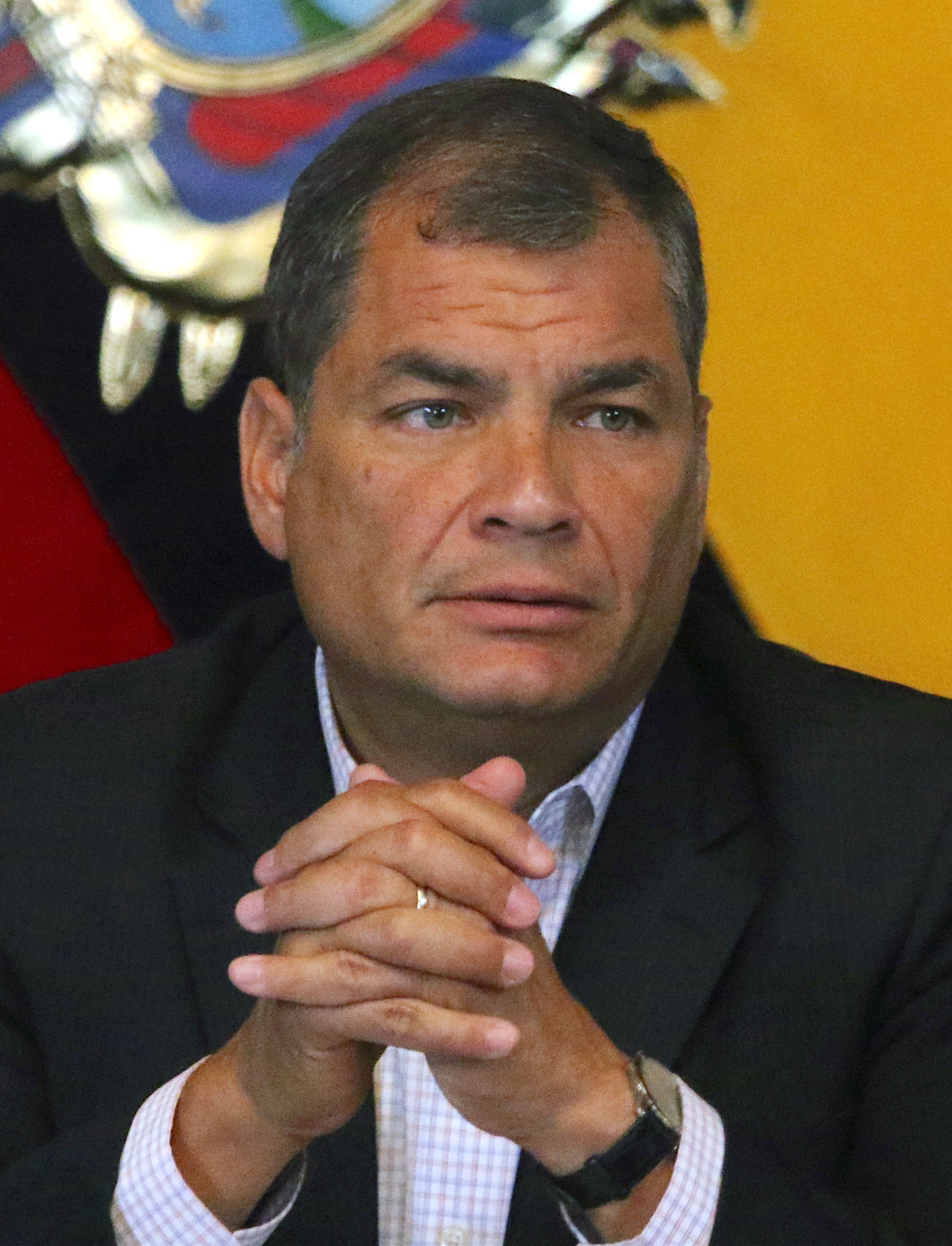 Rafael Correa in February 2017.